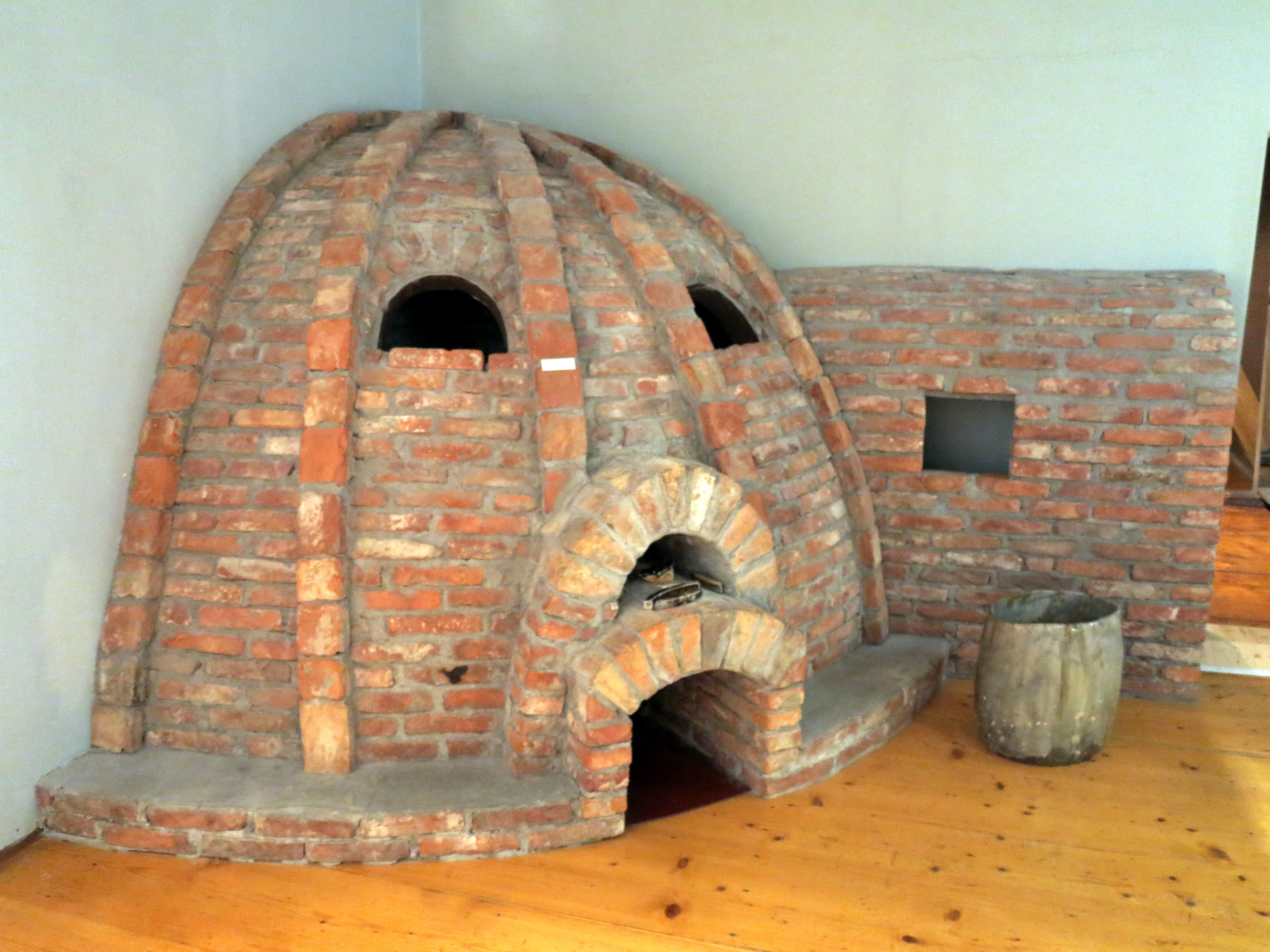 Reconstruction of a furnace for melting and cooling of Forest glass in the Museum of Folk Culture in Spittal an der Drau. This type of furnace was in use in the village glassblower Tscherniheim, a place of Forest glass production from 1621 to 1879 in the municipality Hermagor-Pressegger See in Carinthia / Austria / EU.